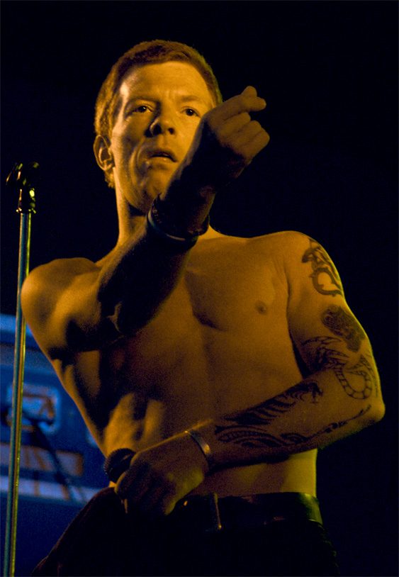 Paul Roberts on stage with The Stranglers at the Wickerman Festival, nr Kircudbright, Dumfries, Scotland.